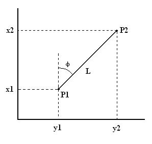 Coordinate system with bearing